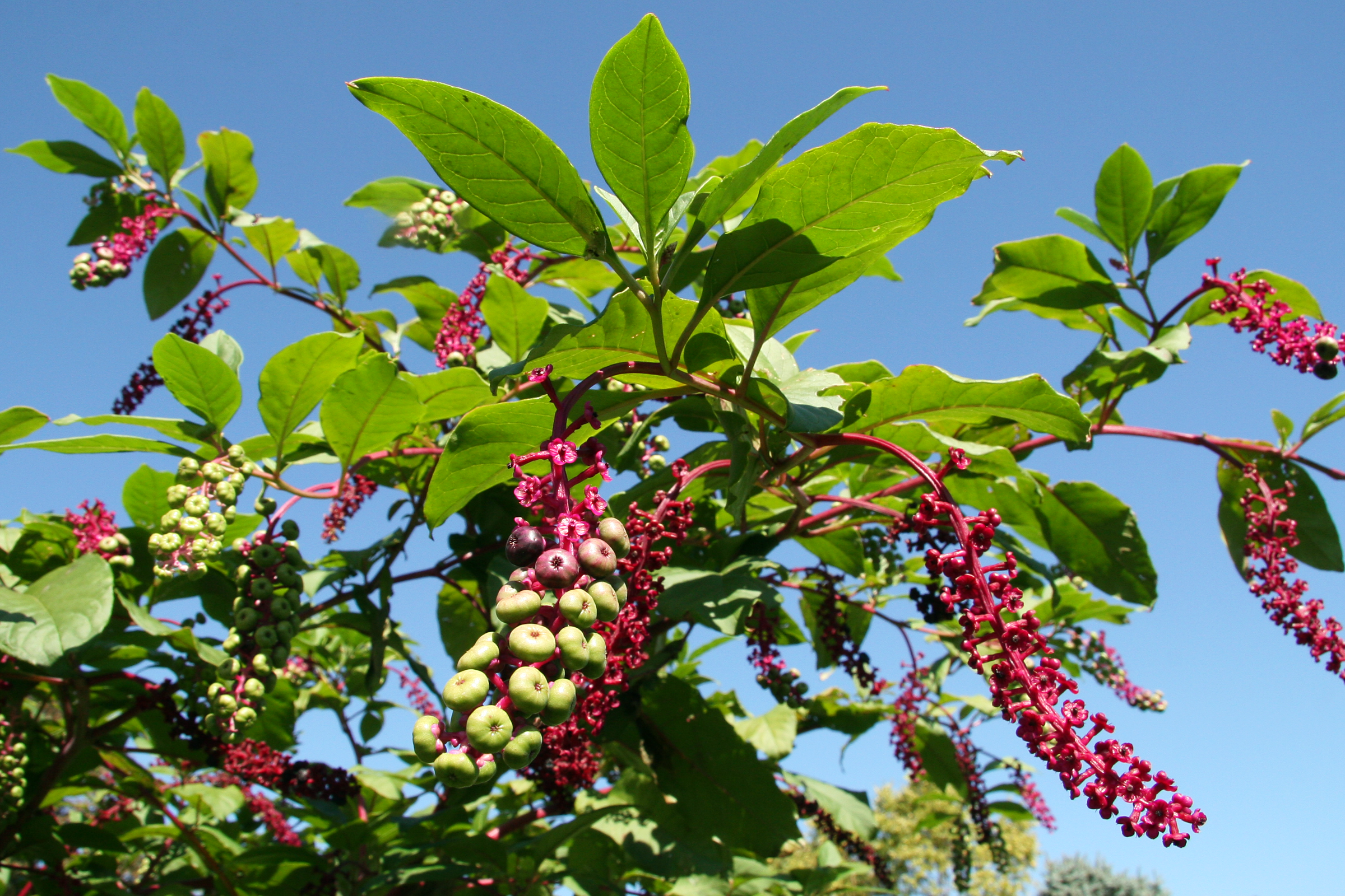 Leaves, flowers and fruit of the American pokeweed (Phytolacca americana), photographed in rural Warren County, Indiana.